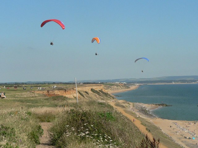 Paragliding at Barton on Sea Three paragliders ridge-soar on the steady wind that blows off the sea at Barton on Sea. These paragliders will make top landings and, as long as the wind stays, can stay up soaring the cliff for some time. A popular spot for them as there is a car park nearby and the cliff and wind direction usually provide excellent conditions. Hurst Point lighthouse can be seen in the distance (right). (Thanks to an anonymous suggestor for all but the final sentence of this description.)